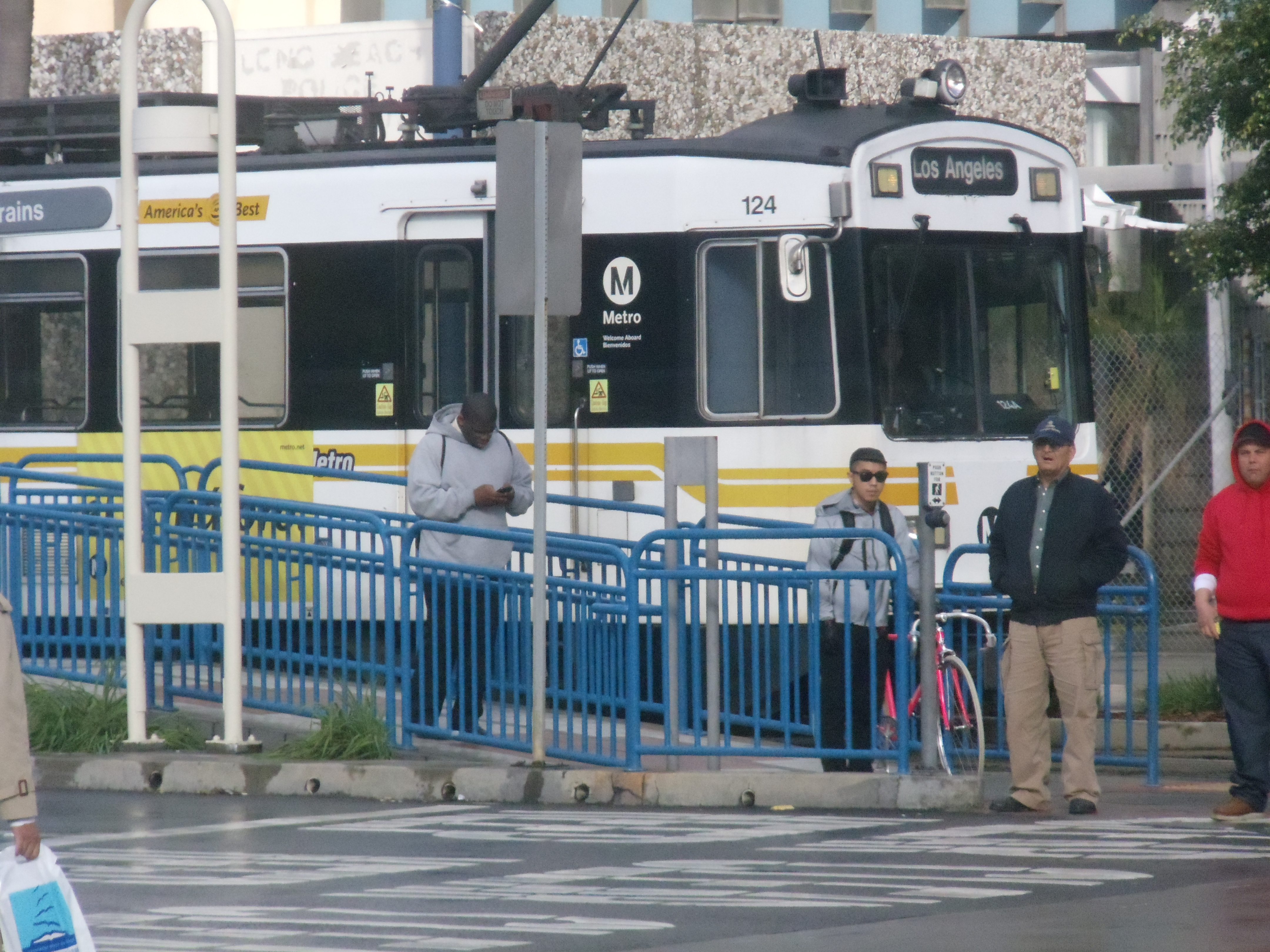 1st Street Blue Line Station